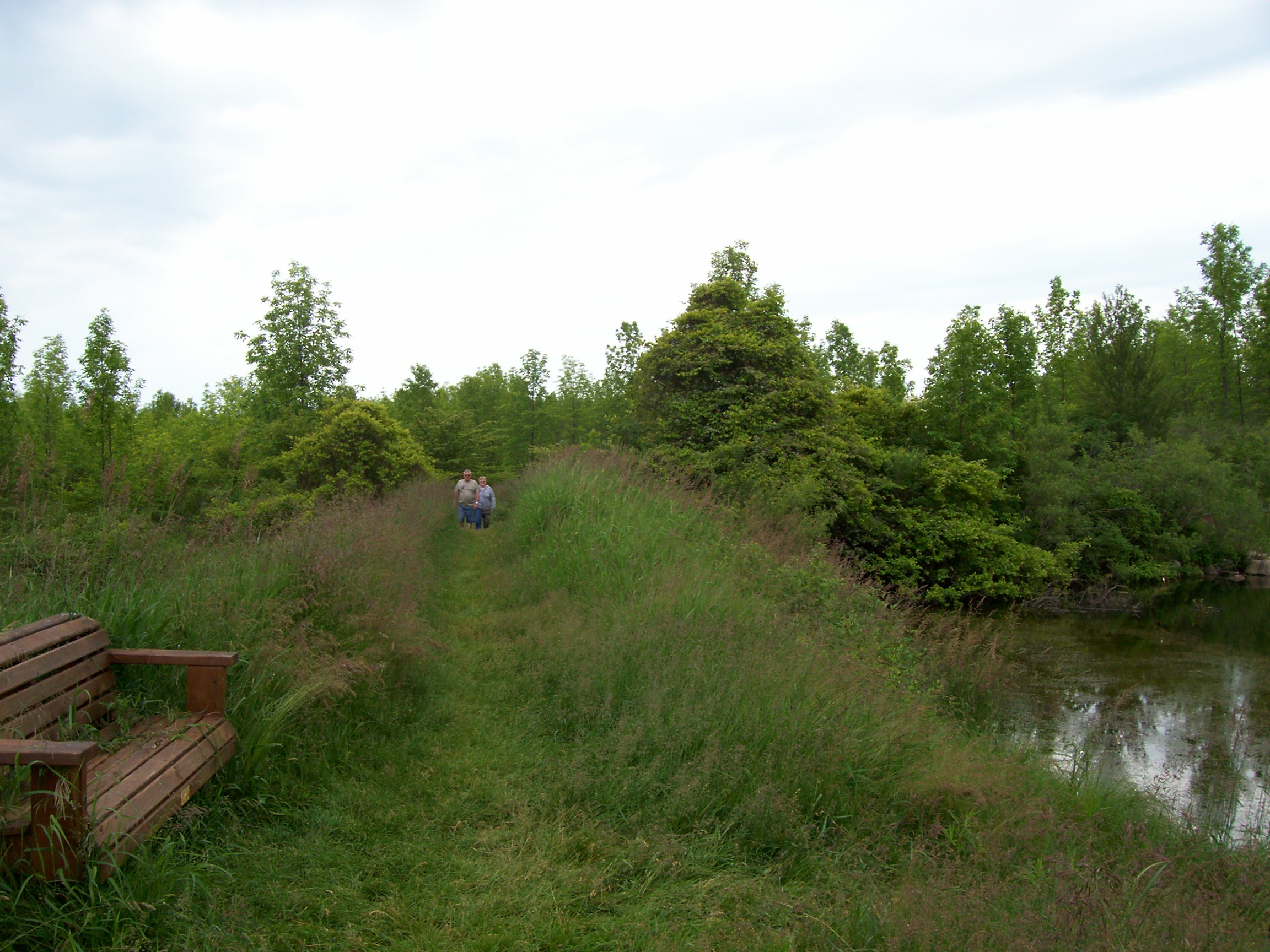 A trail at Harrington Beach State Park near Belgium, Wisconsin, USA.